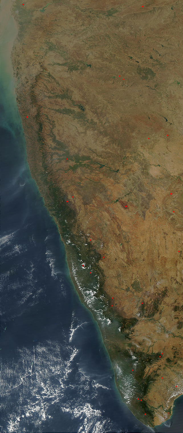 Satellite photo of peninsular India, particularly the Western Ghats and the Coasts of Malabar and Konkan.